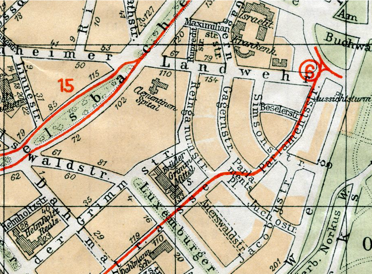 1933: City map (crop) of Frankfurt am Main, Hesse, Germany. The crop focusses on the situation of Clementinenspital (current: Clementine Kinderhospital) at Bornheimer Landwehr 110.